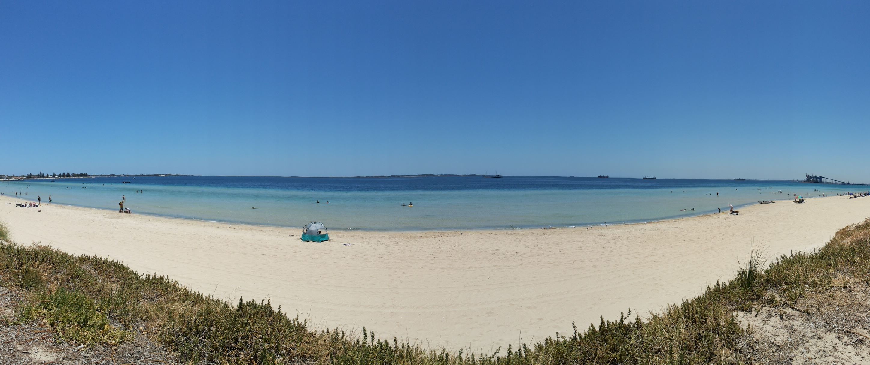 A panorama view of Rockingham Beach in Rockingham,Western Australia.